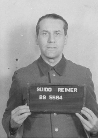 Guido Reimer was SS-Obersturmführer and guard battalion leader in the concentration camp of Buchenwald. In the Buchenwald Camp Trial (part of the Dachau Trials) he was sentenced to death by hanging (later modified to lifetime imprisonment).